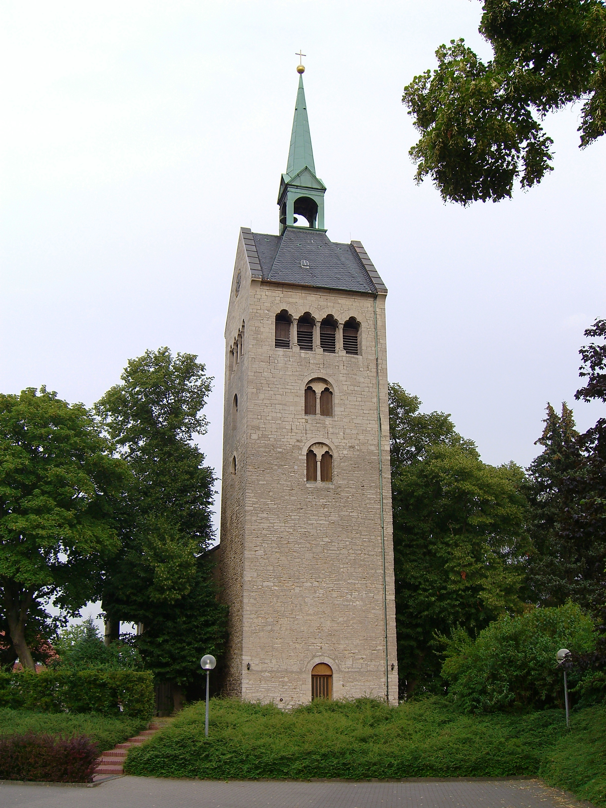 church Saint Lambertus in Suepplingen